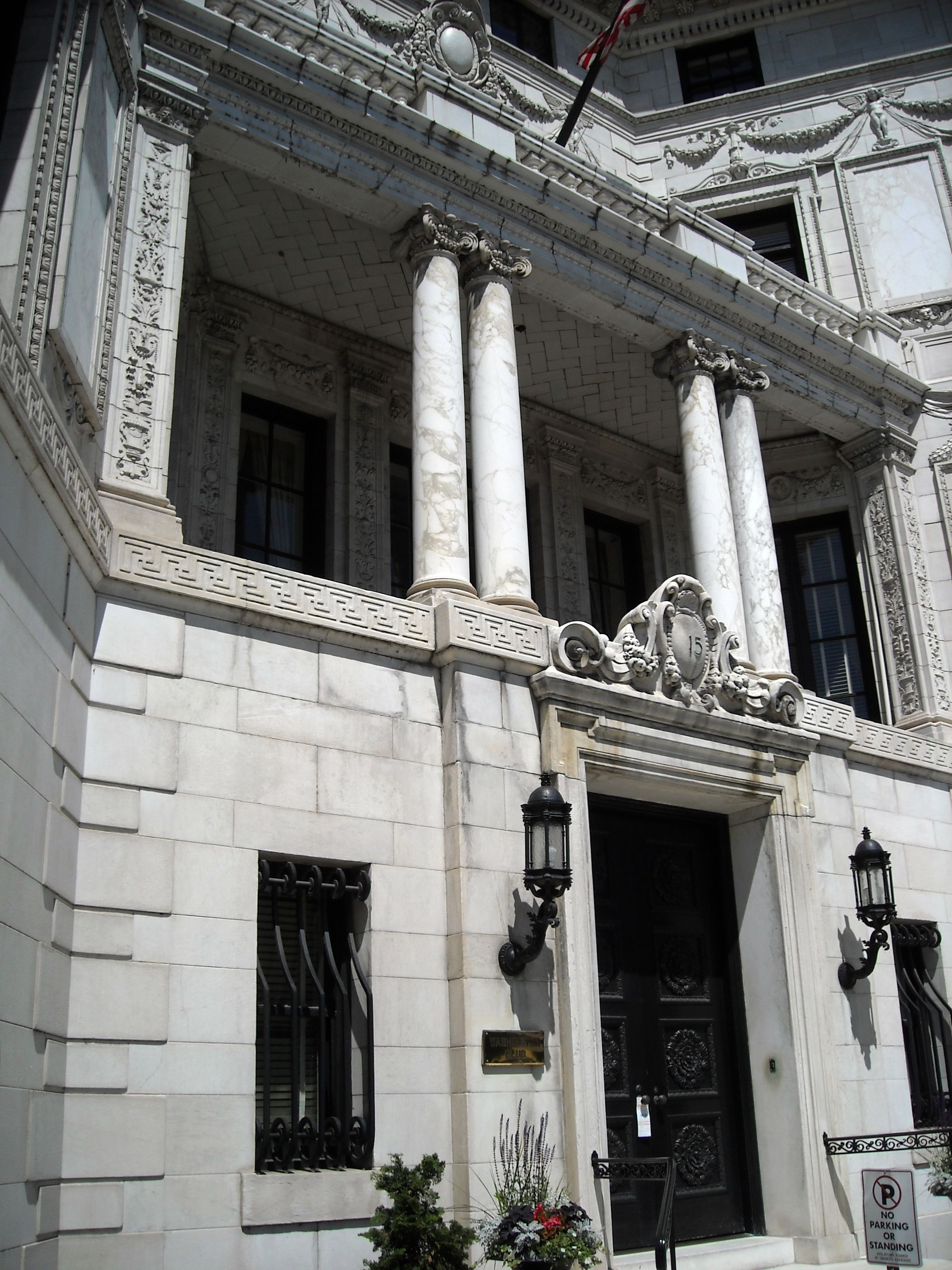 Entrance to the Washington Club at Dupont Circle in Washington, D.C. The building is listed on the National Register of Historic Places.